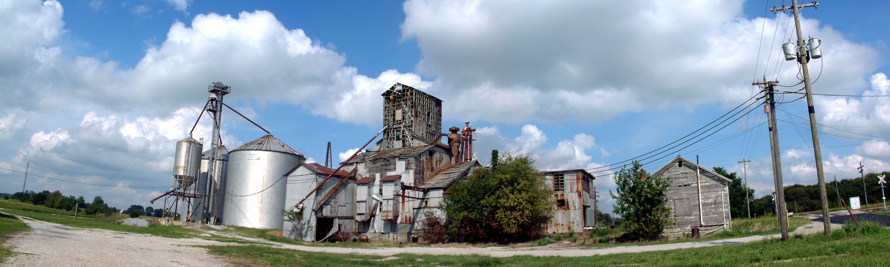 Looking from north to east toward the old grain elevators in the extinct town of Corwin in Tippecanoe County, Indiana. Image is a composite of three photos joined together.